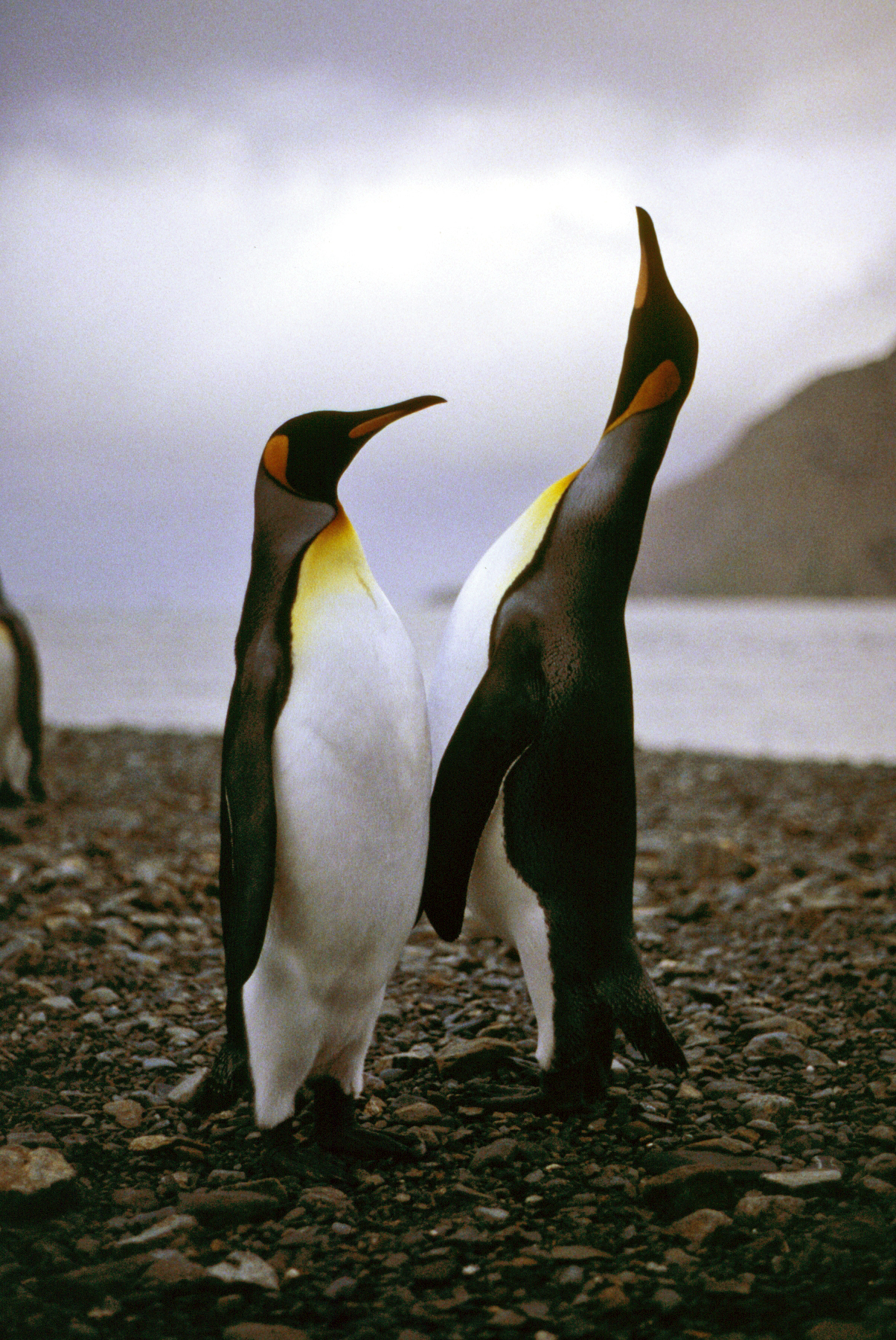 Two king penguins in South Georgia Island. Original caption: "King Penguin singing".